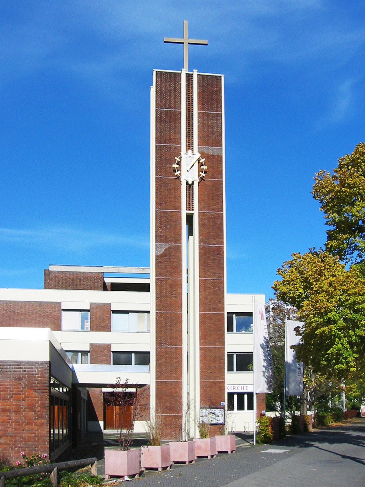 Jerusalemkirche at Lindenstraße in Berlin-Kreuzberg (Germany)